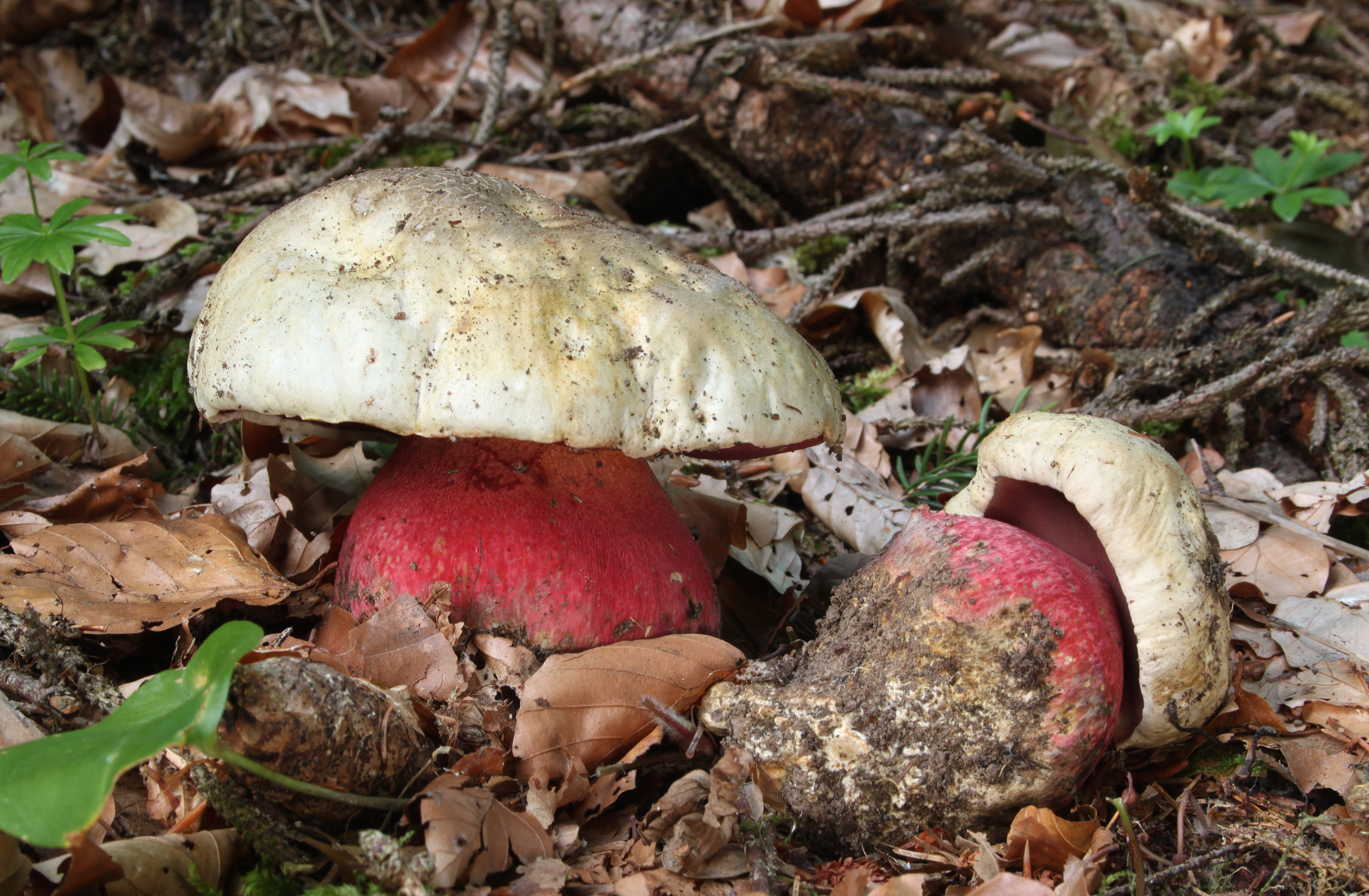 Devil's bolete or Satan's mushroom, Boletus satanas, Family: Boletaceae Location: Germany, Erbach, Ringingen. Only area geotagging because rare species.